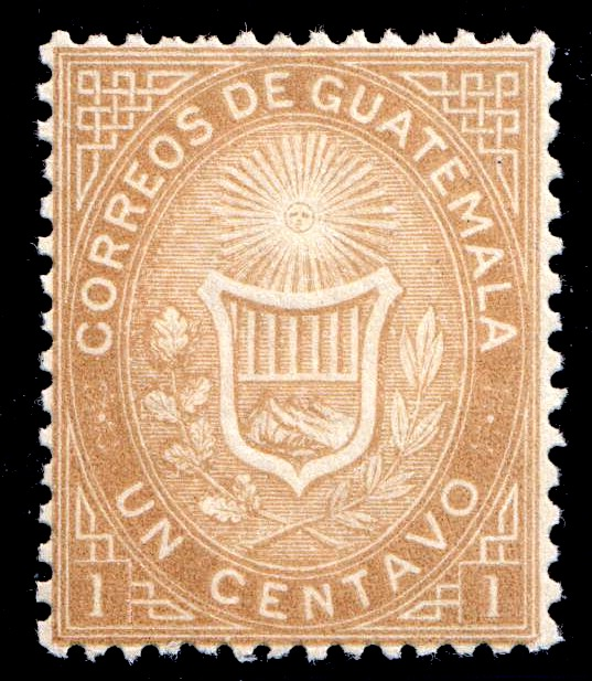 Guatemala first issue, March 1871 coat of arms, 1 centavo ocher, mint, perforated 14x13.5. Engraved by Ferdinand Joubert. Typographed by the Government Mint, Paris. Printed in sheets of 150. Issued for domestic and outbound mail letters. 1871 Postal Rates: 6 Centavos- Single internal rate 12 Centavos - Double internal rate 12 Centavos - Single outbound rate 24 Centavos - Double outbound Rate 12 Centavos - Addtional Weight Per Ounce or Fraction Thereof. First half of 1872, Postal Rates: 5 Centavos- Single internal rate 10 Centavos - Double internal rate 10 Centavos - Single outbound rate 20 Centavos - Double outbound Rate 10 Centavos - Addtional Weight Per Ounce or Fraction Thereof. Catalogue: Sc. 1